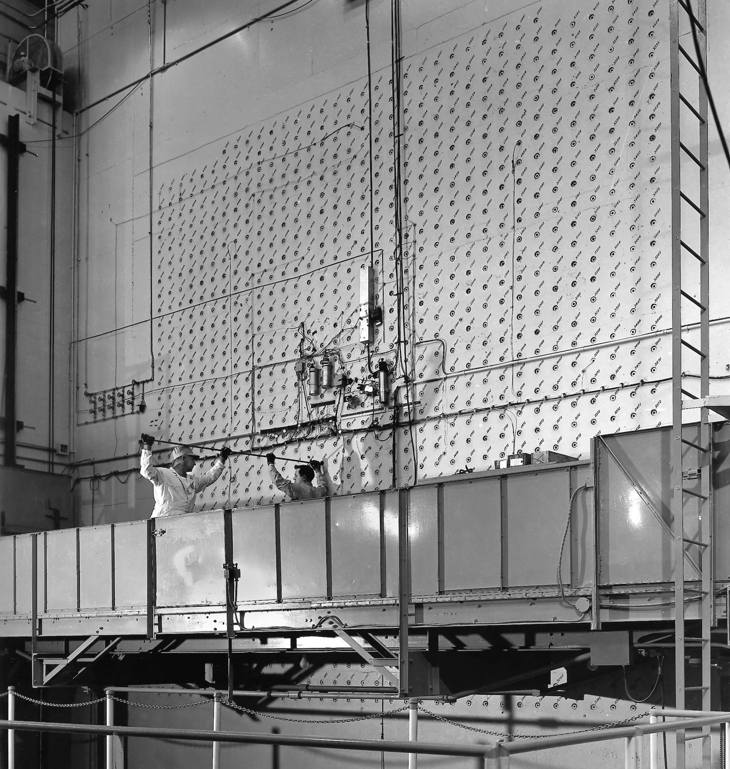 Workers load uranium slugs into the X-10 Graphite Reactor's concrete face. Built as part of the Manhattan Project, X10 was the first-ever production reactor, and acted as a proof of concept for the reactors that would produce materials for the first nuclear bombs. The concrete face is 44 by 44 feet (13.4 metres). It is part of the Oak Ridge National Laboratory, a designated National Historic Landmark, and is open for guided tours.